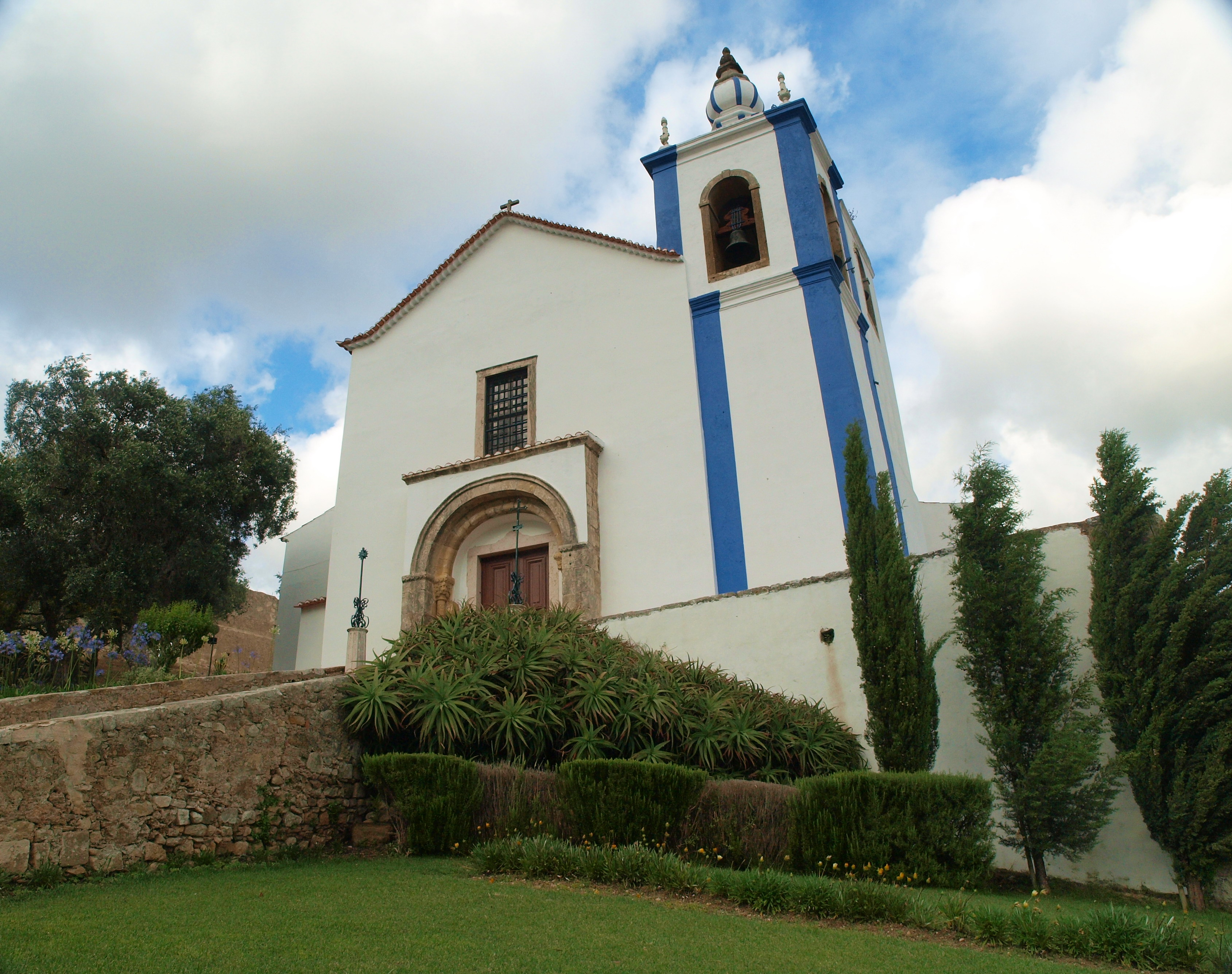 Church of Santa Maria do Castelo, inside the castle of Torres Vedras, Portugal.